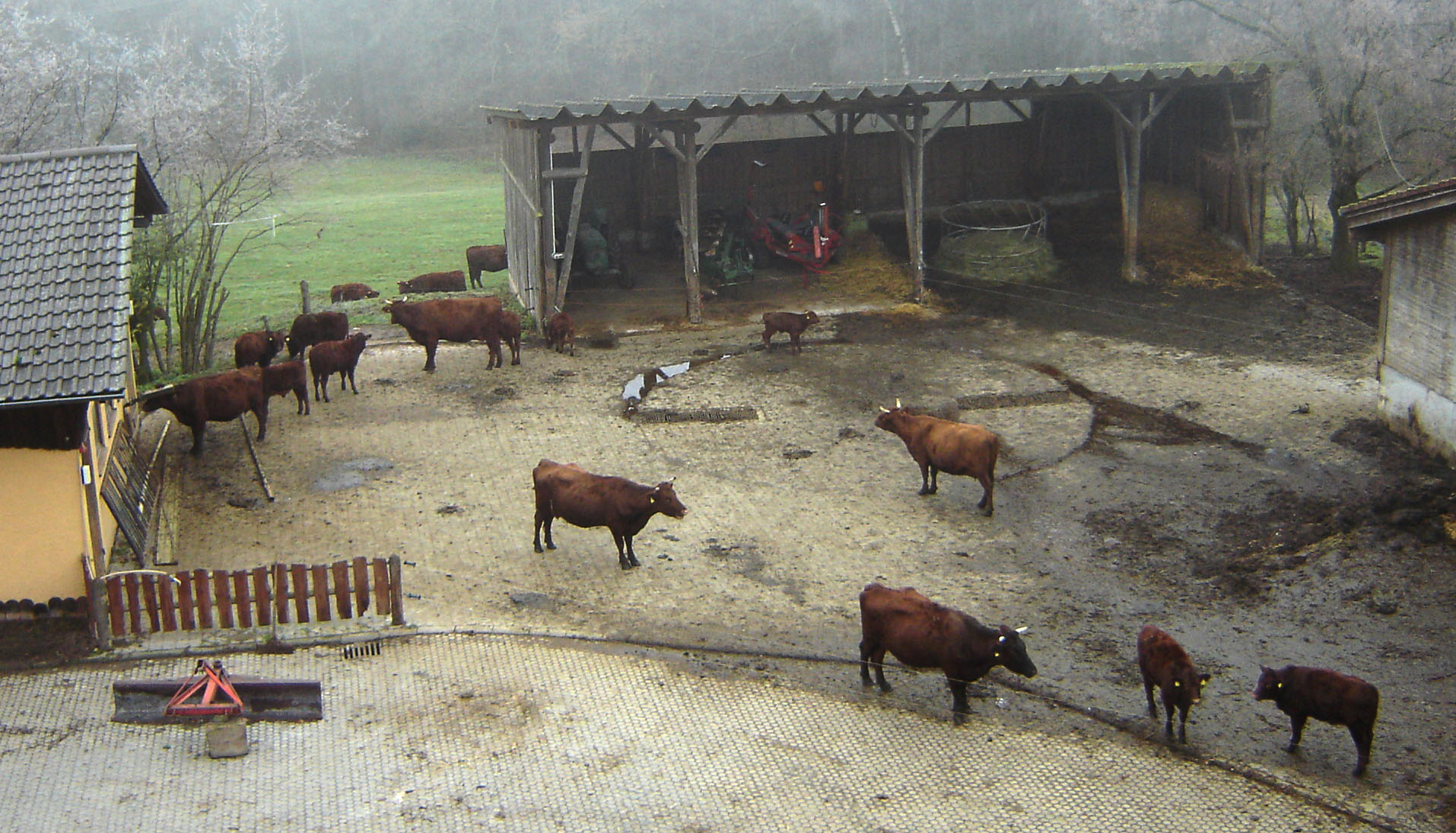 farm in the rhöne area